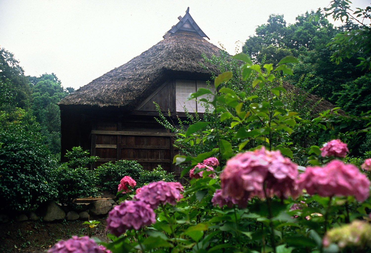 Japanese traditional house on display at Nihon Minka-en, Kawasaki, Kanagawa prefecture, Japan. I took this photo and contribute my rights in the file to the public domain.